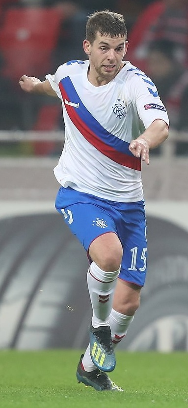 Jon Flanagan with Rangers in an Europa League game against Spartak Moscow.